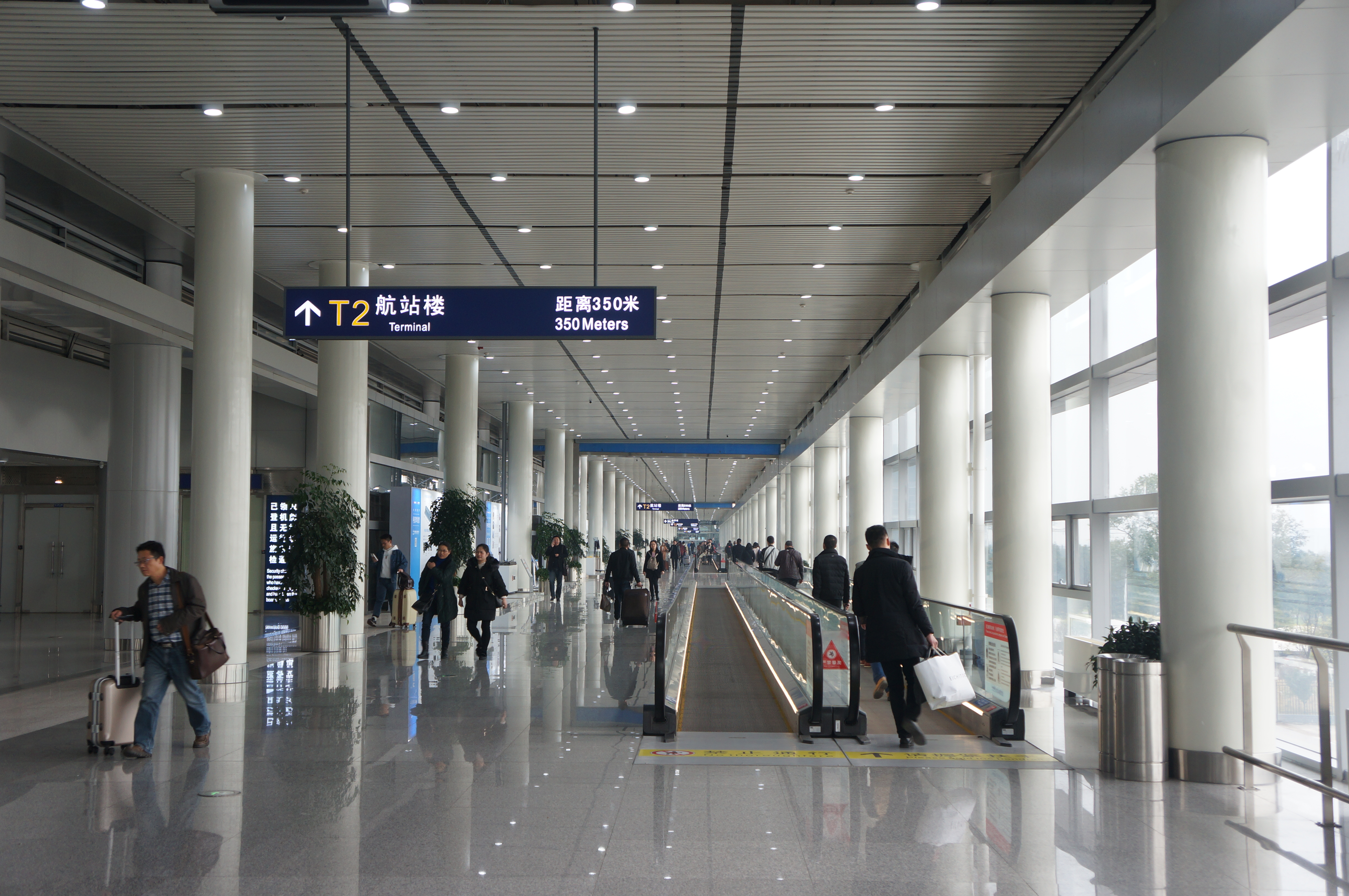 201712 Maglev-Terminal Corridor, with few fast entrance for passengers who do not have checked baggage and self-check-in already.